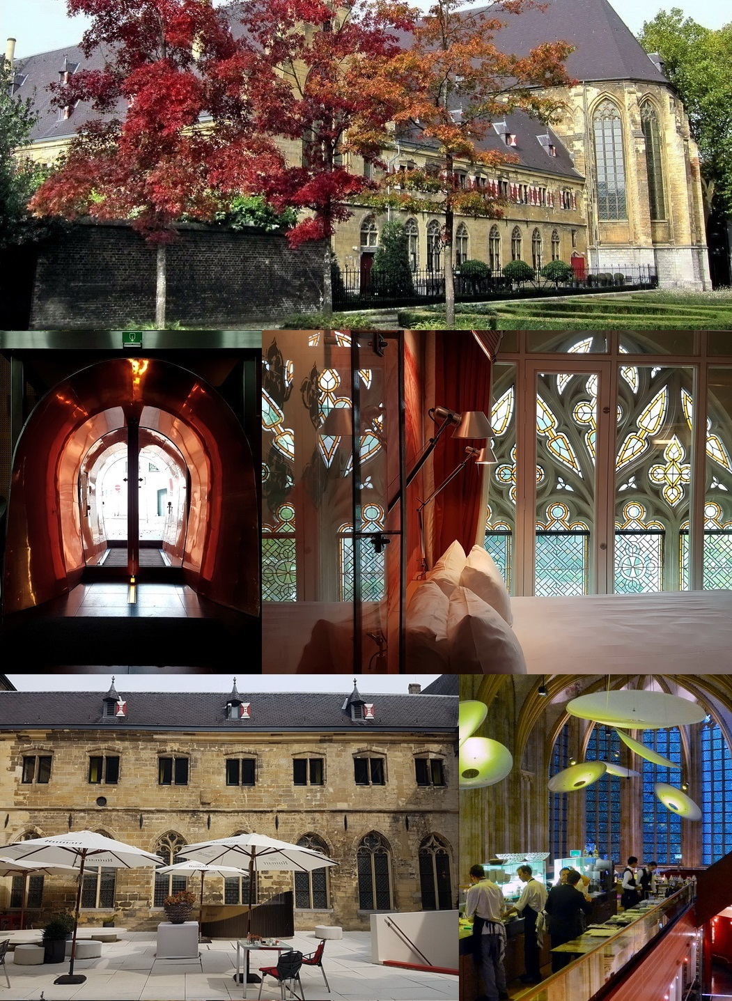 Photo montage of Kruisherenhotel, a luxury hotel in a Gothic monastery in the centre of Maastricht, the Netherlands. All photos are either taken by Kleon3 or under a Creative Commons Share Alike license.